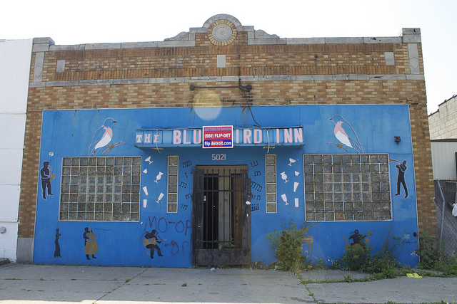 The Blue Bird Inn, Summer 2011